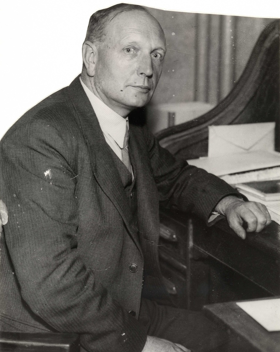 Norwegian educator and textbook writer Hans Nielsen Høeg (1881–1957). Photo from around 1935.